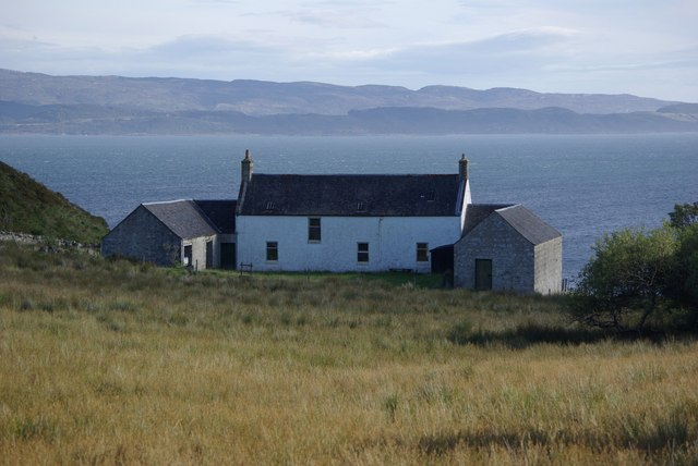 Barnhill cottage from the rear